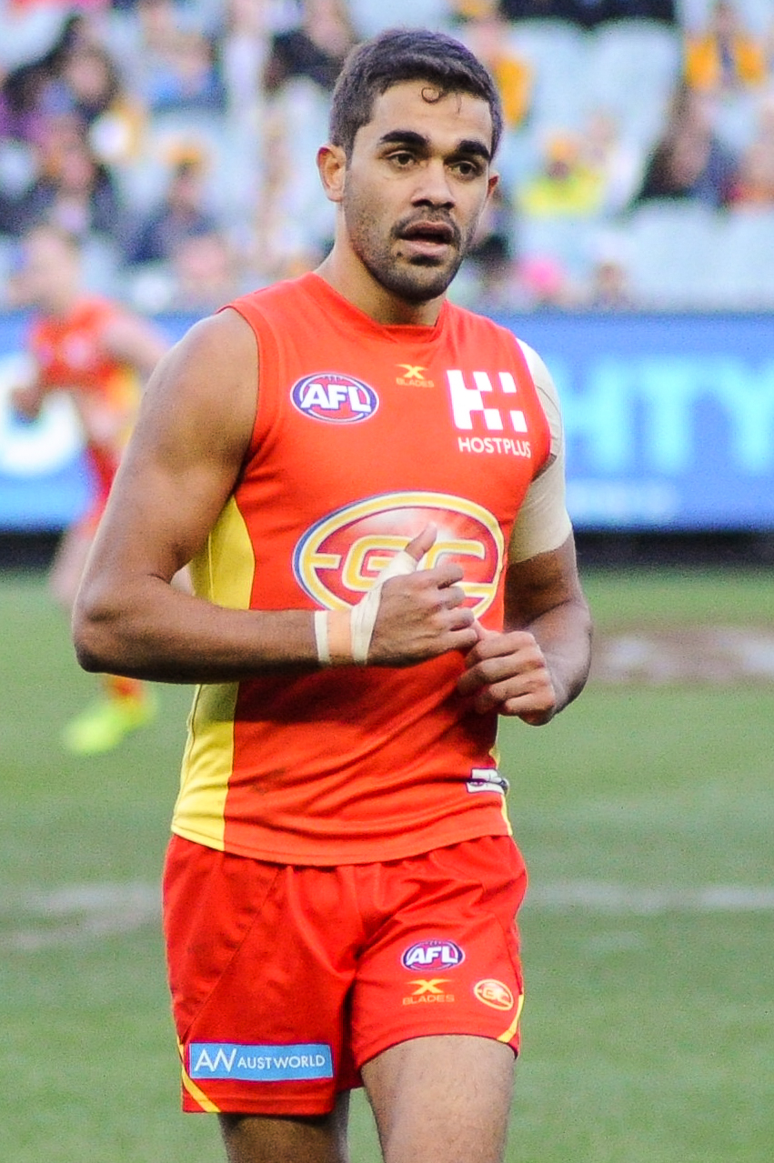 Jack Martin during the AFL round twelve match between Melbourne and Collingwood on 10 June 2017 at the Melbourne Cricket Ground in Melbourne, Victoria.